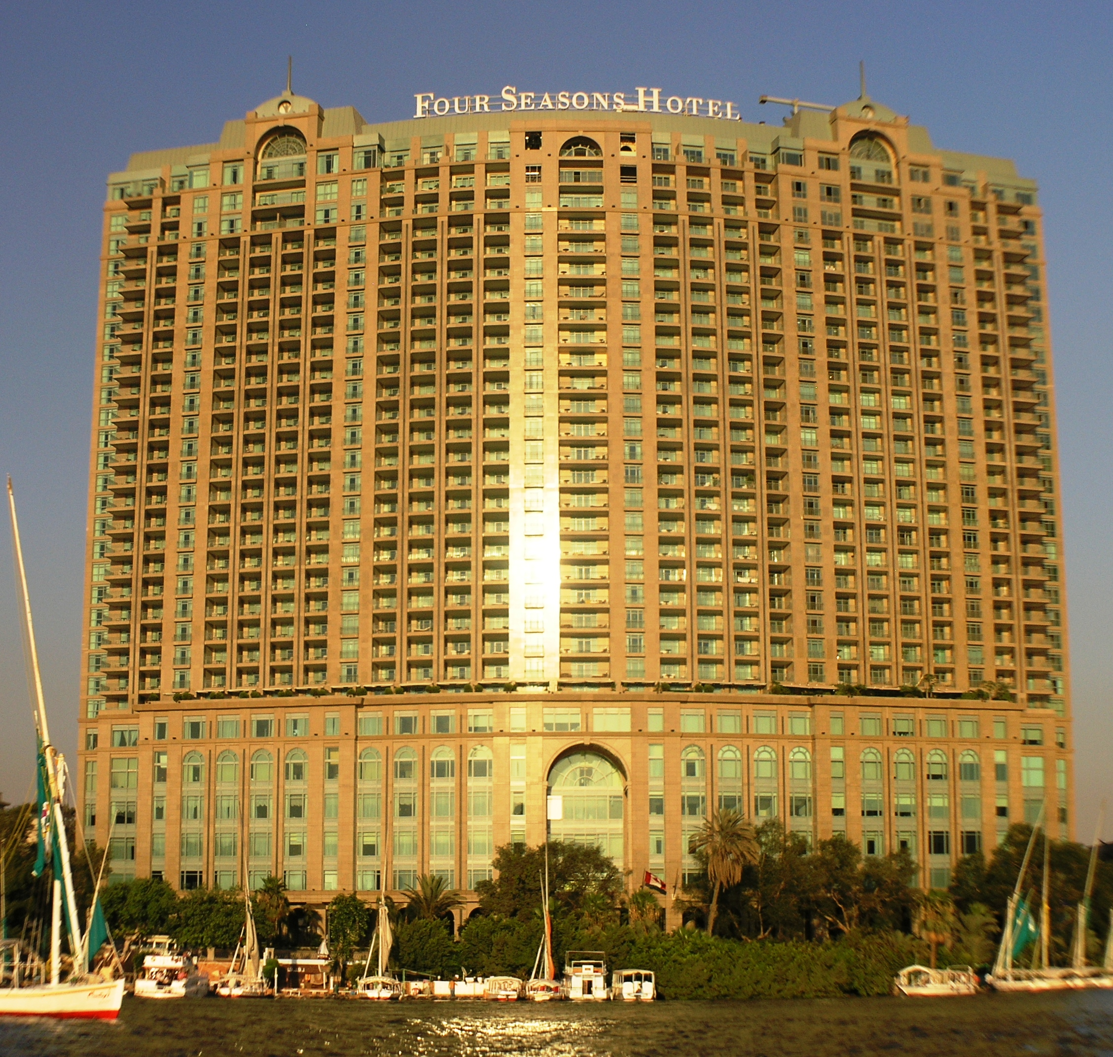 Cairo - Garden City - Four Seasons Hotel from the Nile